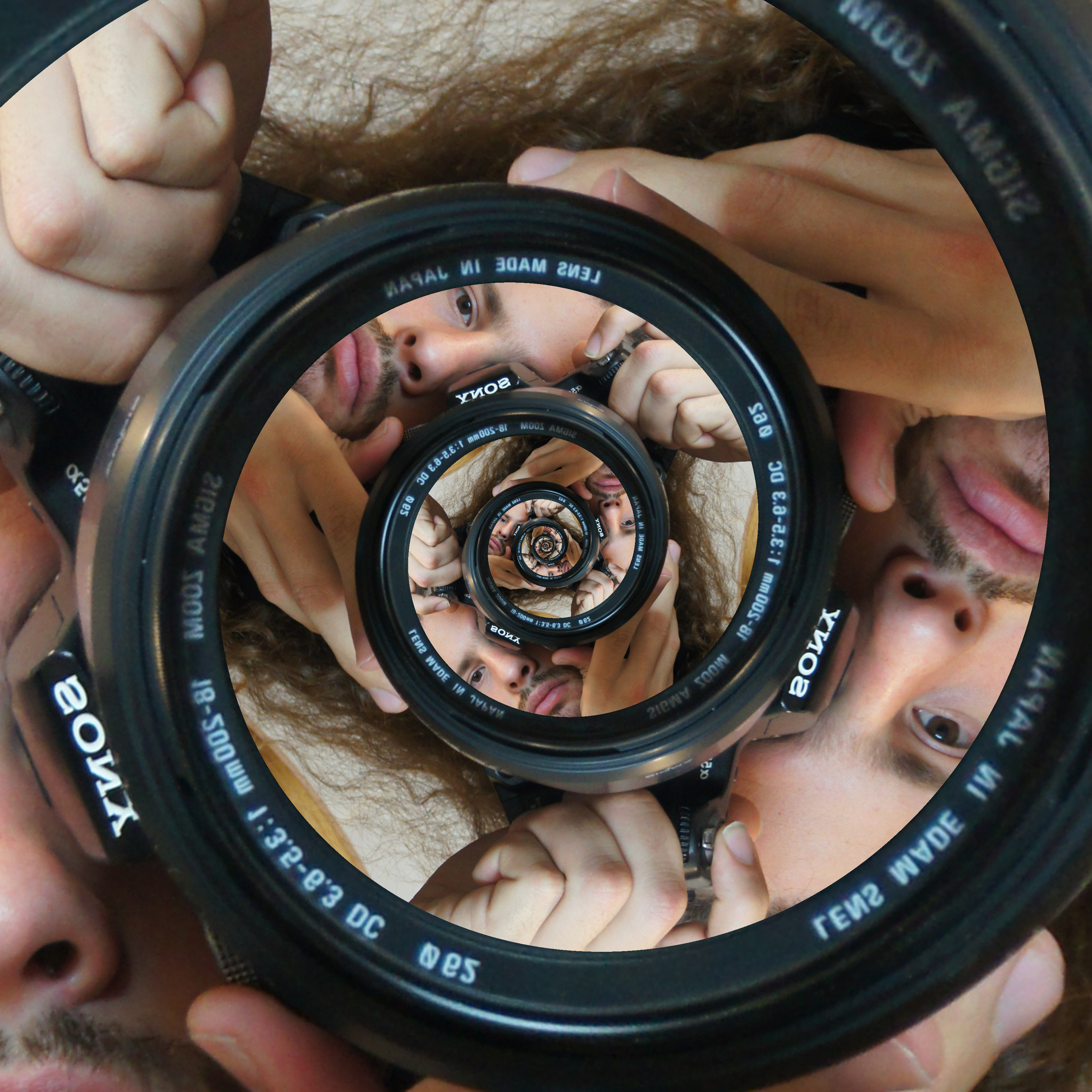 Droste effect